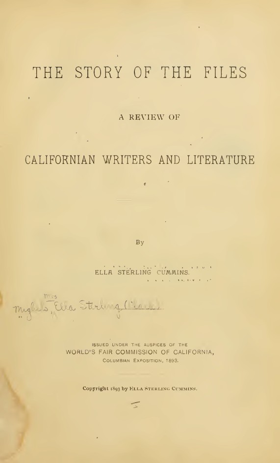 CUMMINS, Ella Sterling [Mighels] (1853-1934). The Story of the Files: A Review of Californian Writers and Literature...Issued under the Auspices of the World’s Fair Commission of California, Columbian Exposition, 1893. [San Francisco: Co-Operative Printing Co.], 1893.